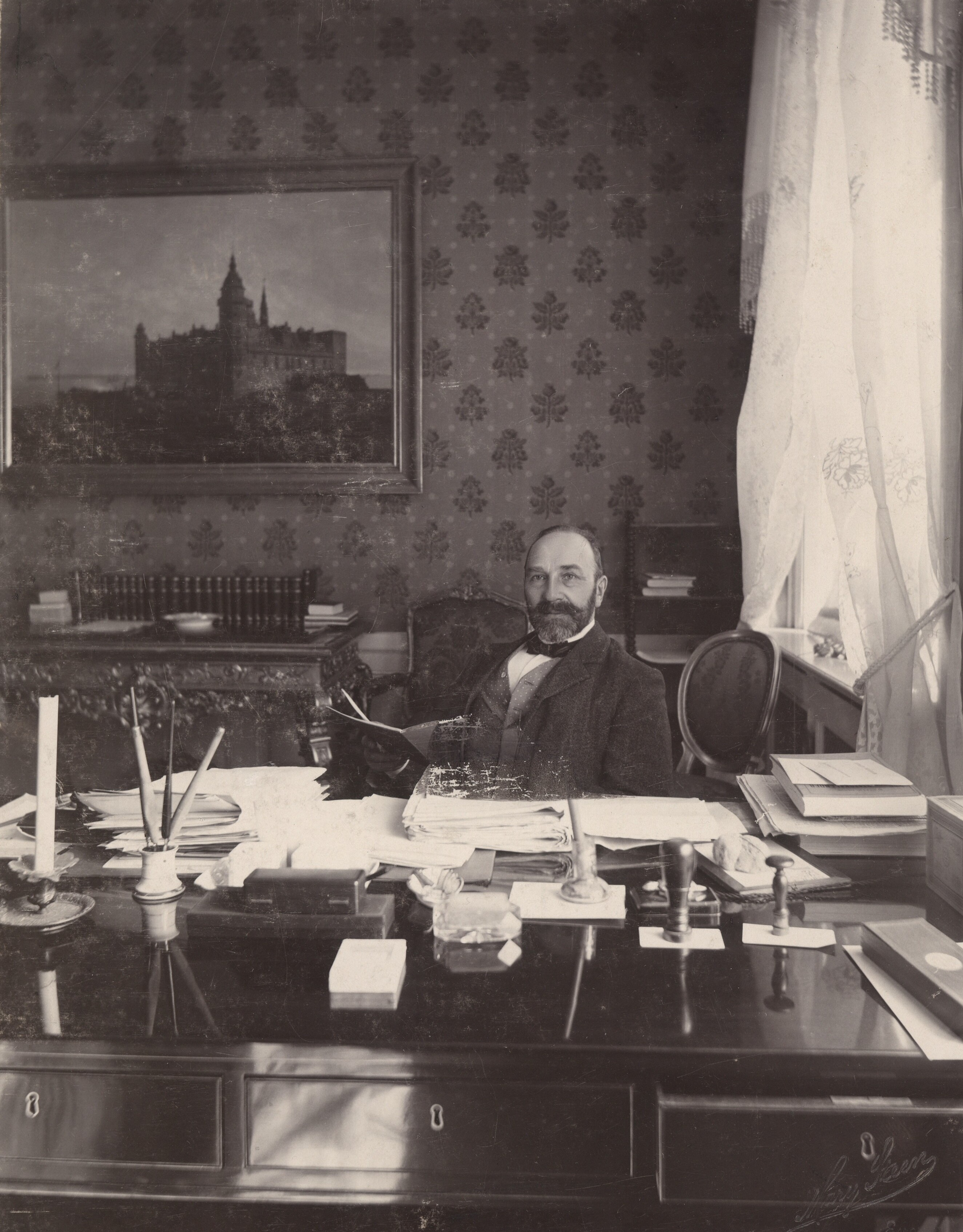 Johan Henrik Deuntzer (1845-1918), Prime Minister and Foreign Minister of Denmark, MP